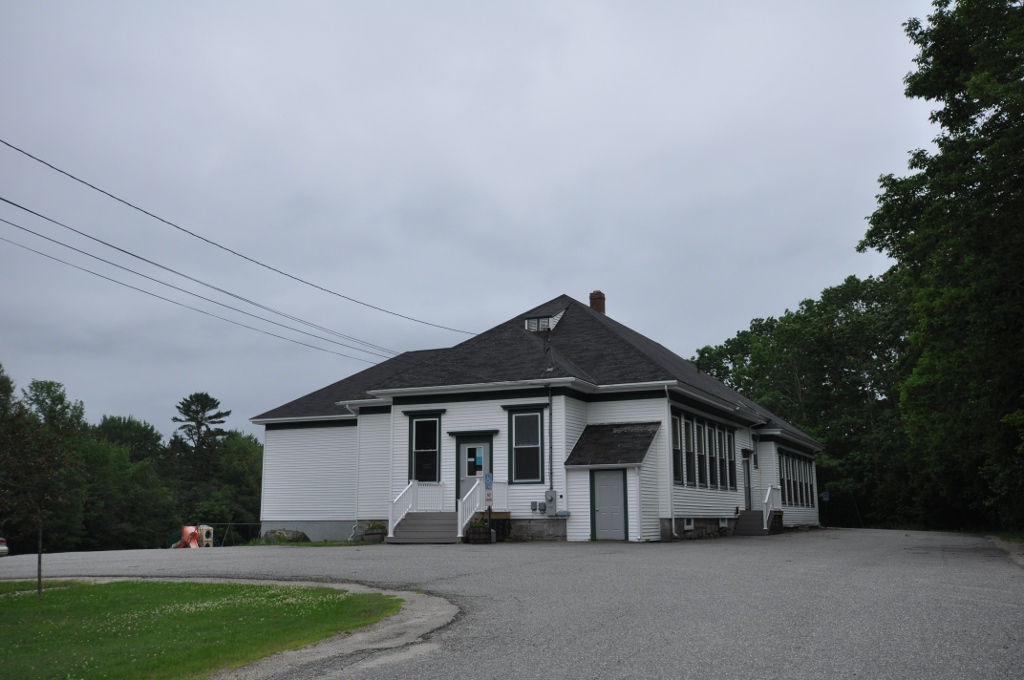 Town Hall, Franklin, Maine